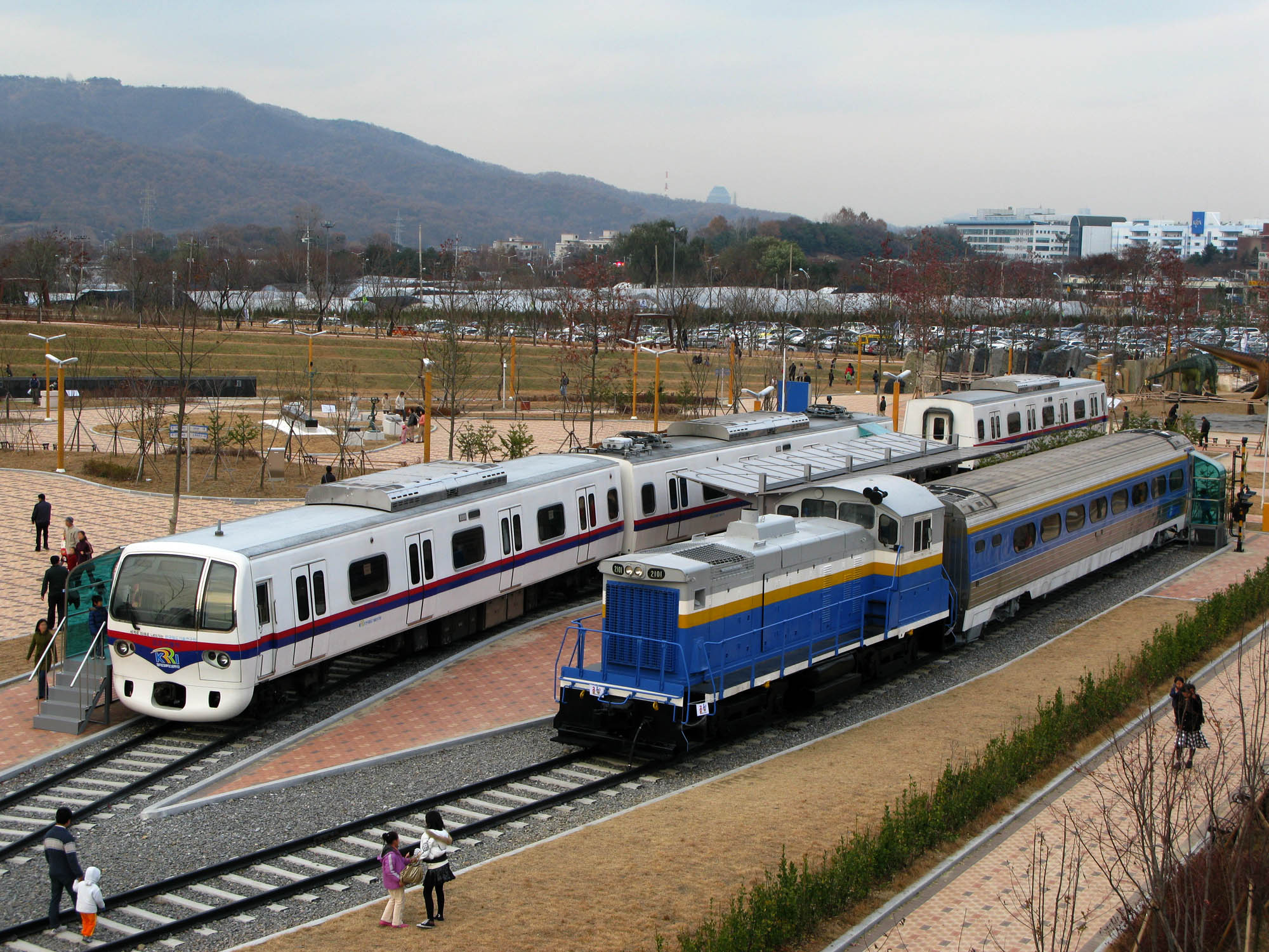 Korea Standard EMU and Diesel Locomotive 2101